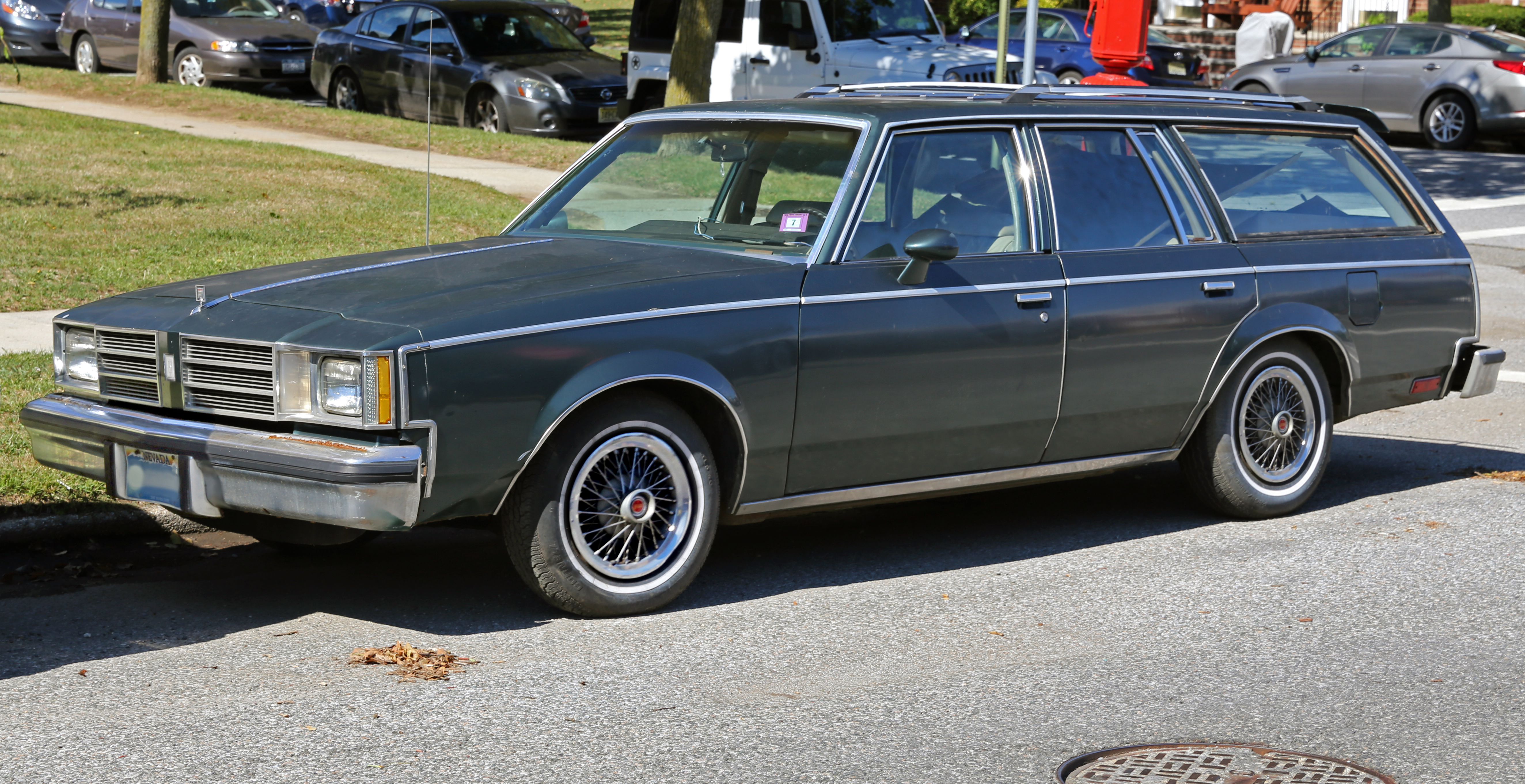 1981 Oldsmobile Cutlass Cruiser Station Wagon. This one has the troublesome 350ci diesel V8 and was assembled in Sainte-Thérèse, Quebec. I don't reckon that the diesel engine is still in it, as there are no tell-tale dribbles below the fuel lid... a six-seater, no third row.